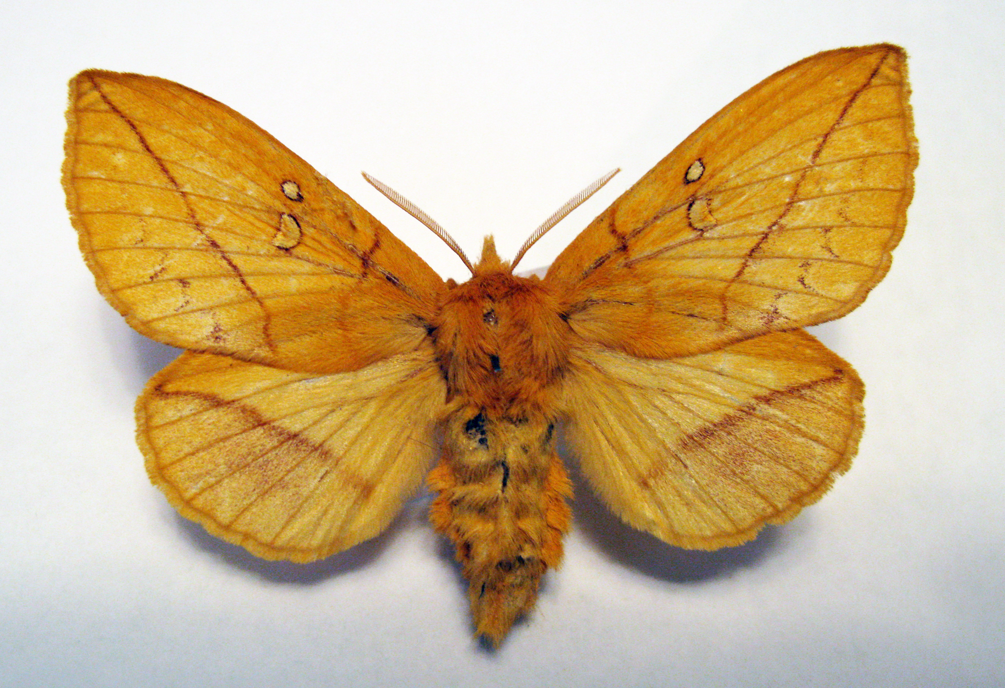 Euthrix potatoria